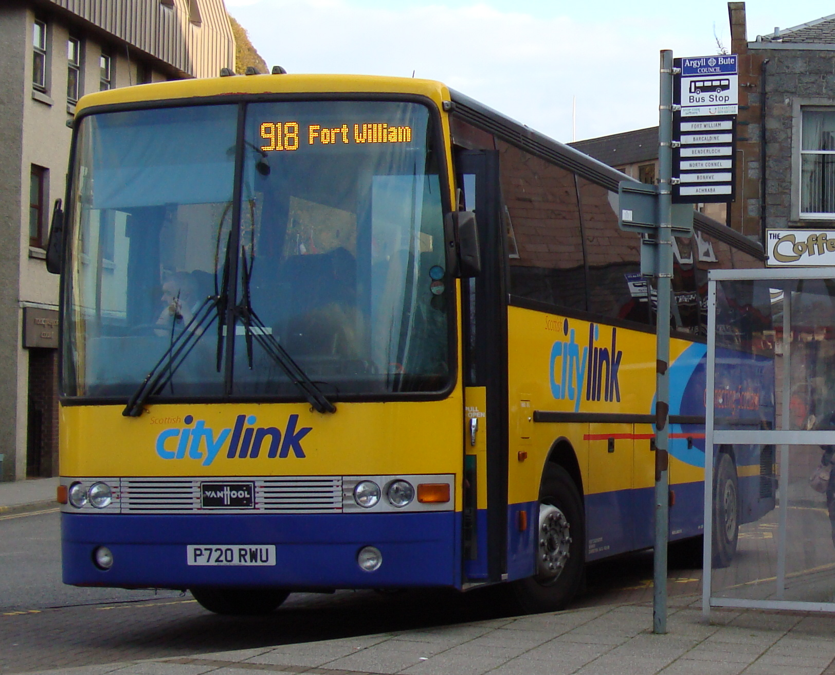 Scottish Citylink coach (reg. P720 RWU), a 1996 DAF SB3000 single-decker with Van Hool Alizée bodywork, pictured in Oban, Argyll and Bute, about to depart on route 918 to Fort William.